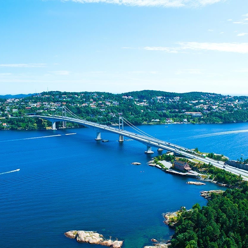 Varoddbrua